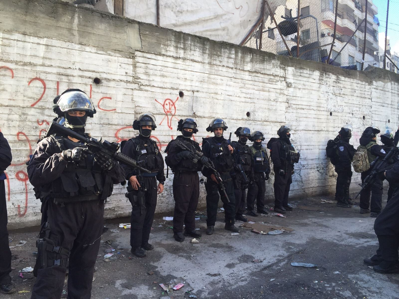 Police officers prepares for a house demolition in Shuafat